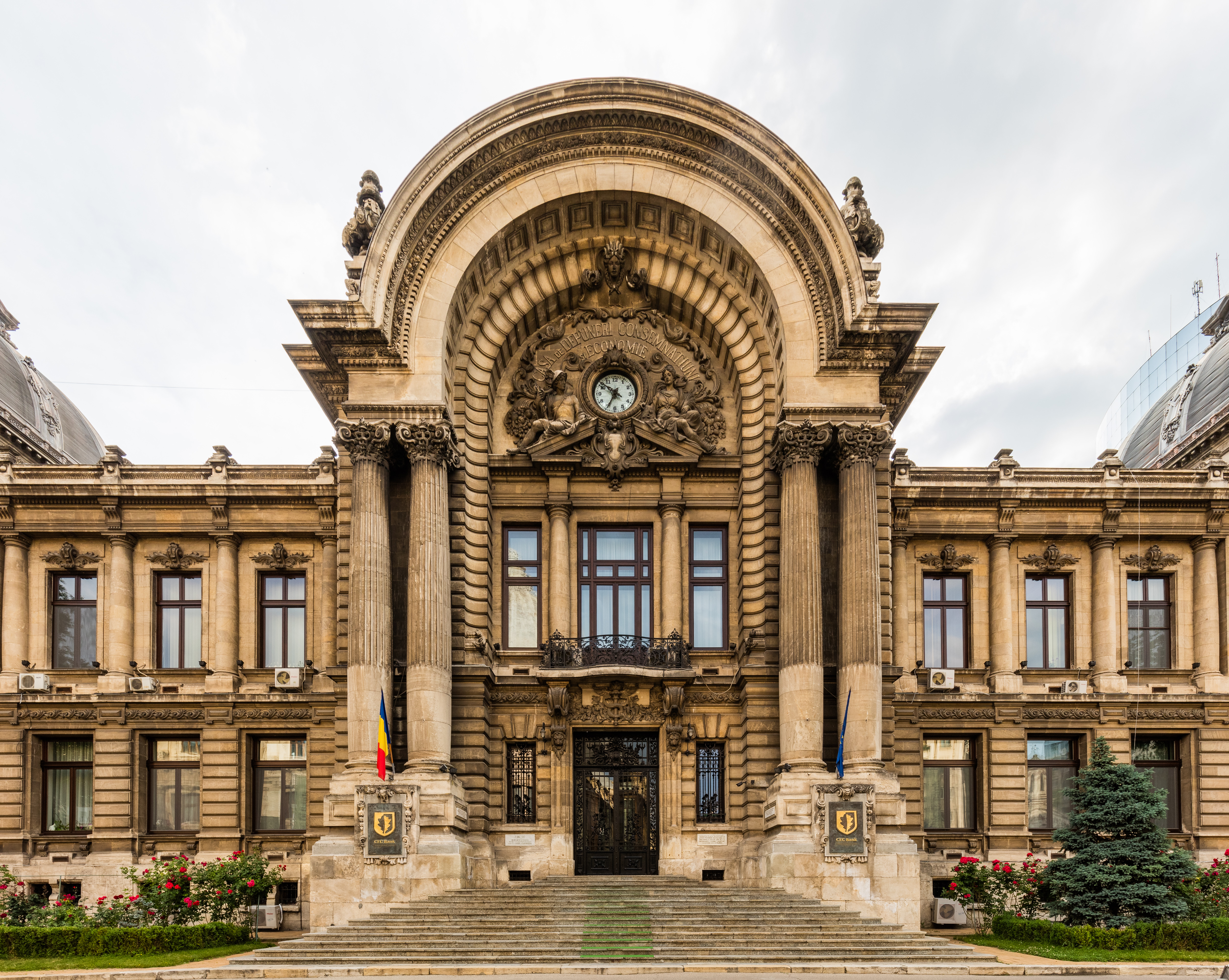 CEC Palace, Bucharest, Romania